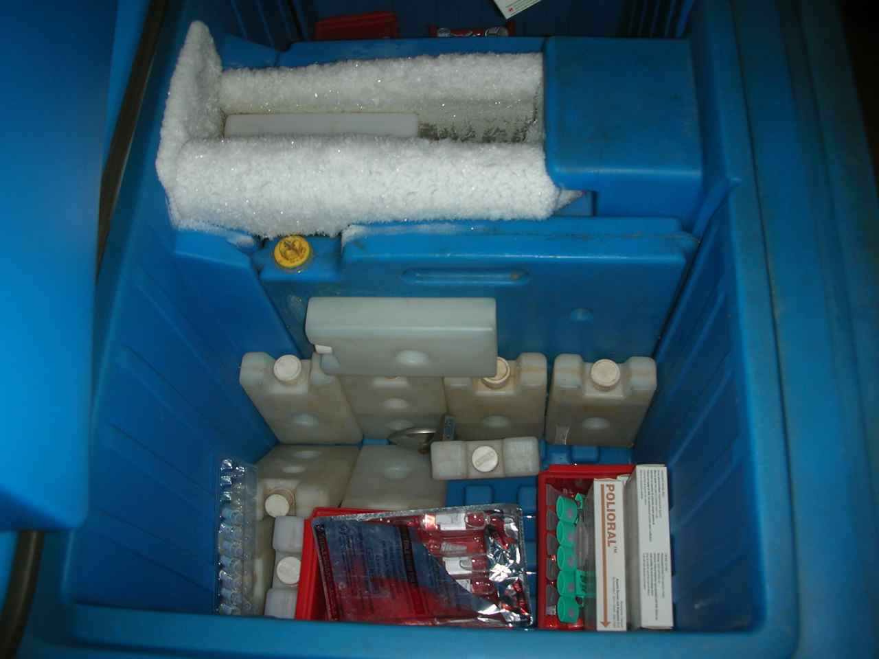 Vaccine "cold chain". From the GiveWell visit to NGO Village Reach in Pemba, Mozambique and surrounding areas. February 2010. More information.